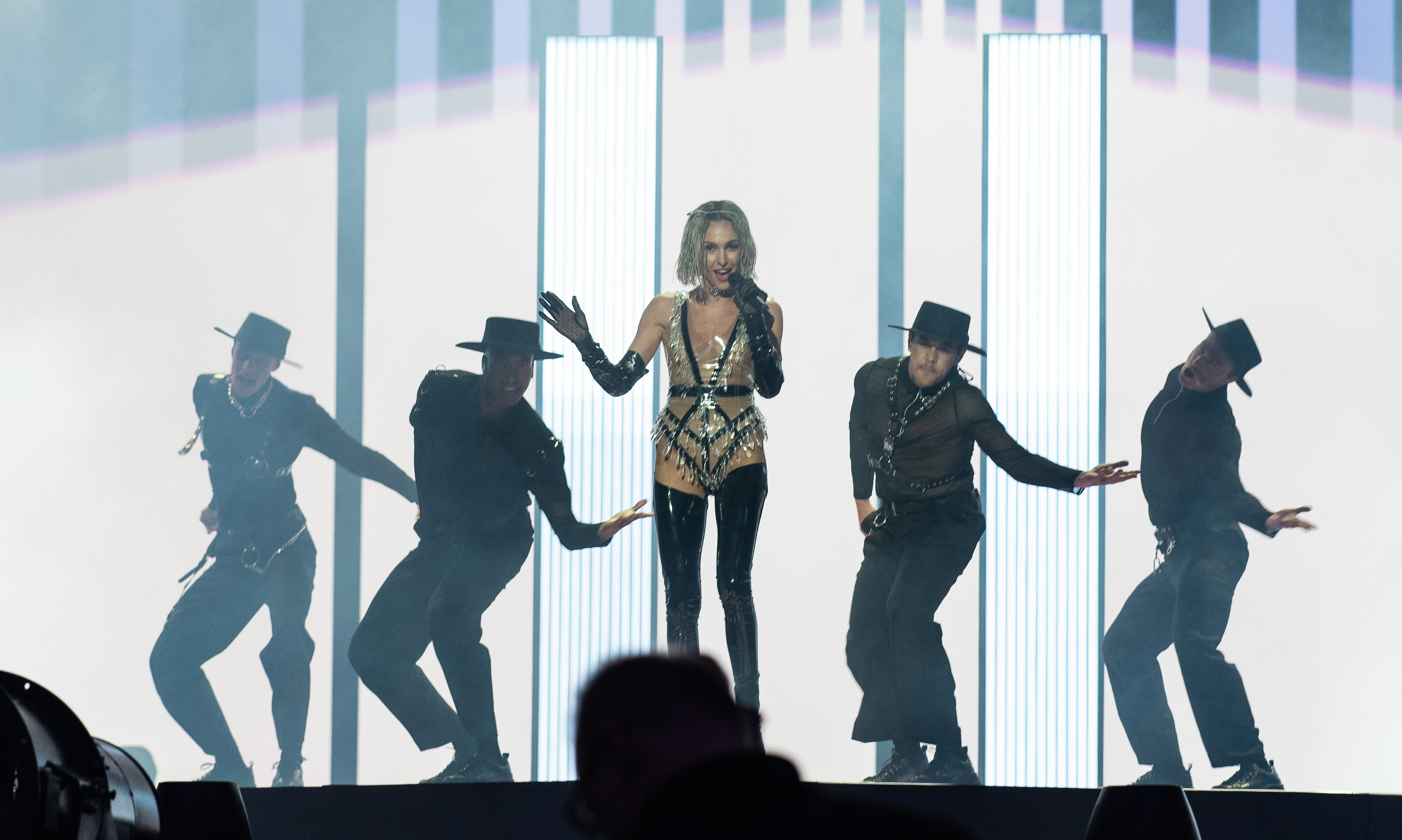 Tamta at the Eurovision Song Contest 2019 in Tel Aviv.